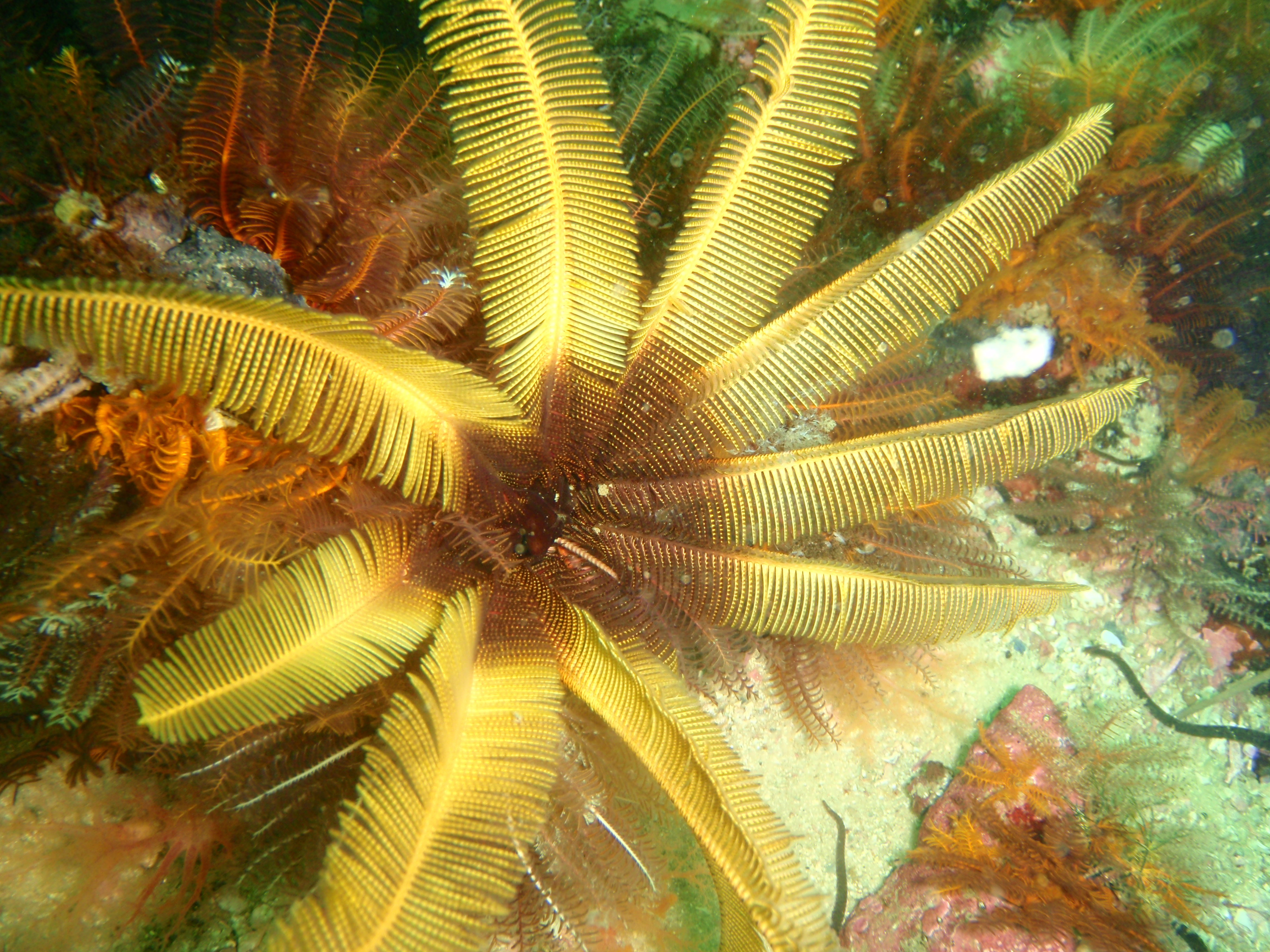 Elegant feather star at Glencairn Fan Gardens